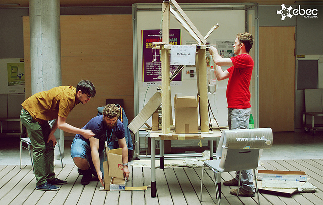 EBEC Team Design 2015